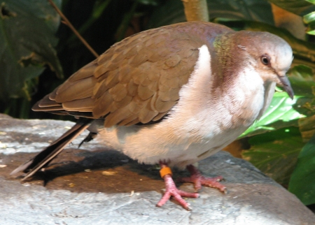 Caribbean Dove Leptotila jamaicensis AKA: Violet Dove, Jamaican Dove, White-fronted Dove, White-bellied Dove